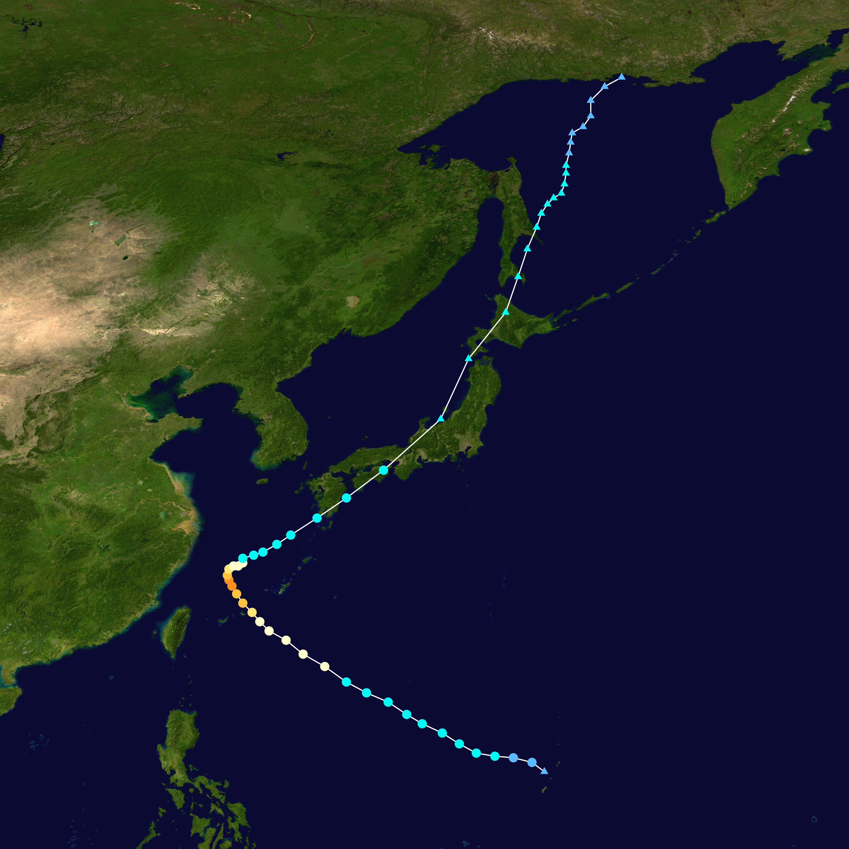 Track map of Typhoon Talim of the 2017 Pacific typhoon season. The points show the location of the storm at 6-hour intervals. The colour represents the storm's maximum sustained wind speeds as classified in the Saffir–Simpson scale (see below), and the shape of the data points represent the nature of the storm, according to the legend below. Saffir–Simpson scale Tropical depression≤38 mph≤62 km/h Category 3111–129 mph178–208 km/h Tropical storm39–73 mph63–118 km/h Category 4130–156 mph209–251 km/h Category 174–95 mph119–153 km/h Category 5≥157 mph≥252 km/h Category 296–110 mph154–177 km/h Unknown Storm type Tropical cyclone Subtropical cyclone Extratropical cyclone / Remnant low / Tropical disturbance / Monsoon depression